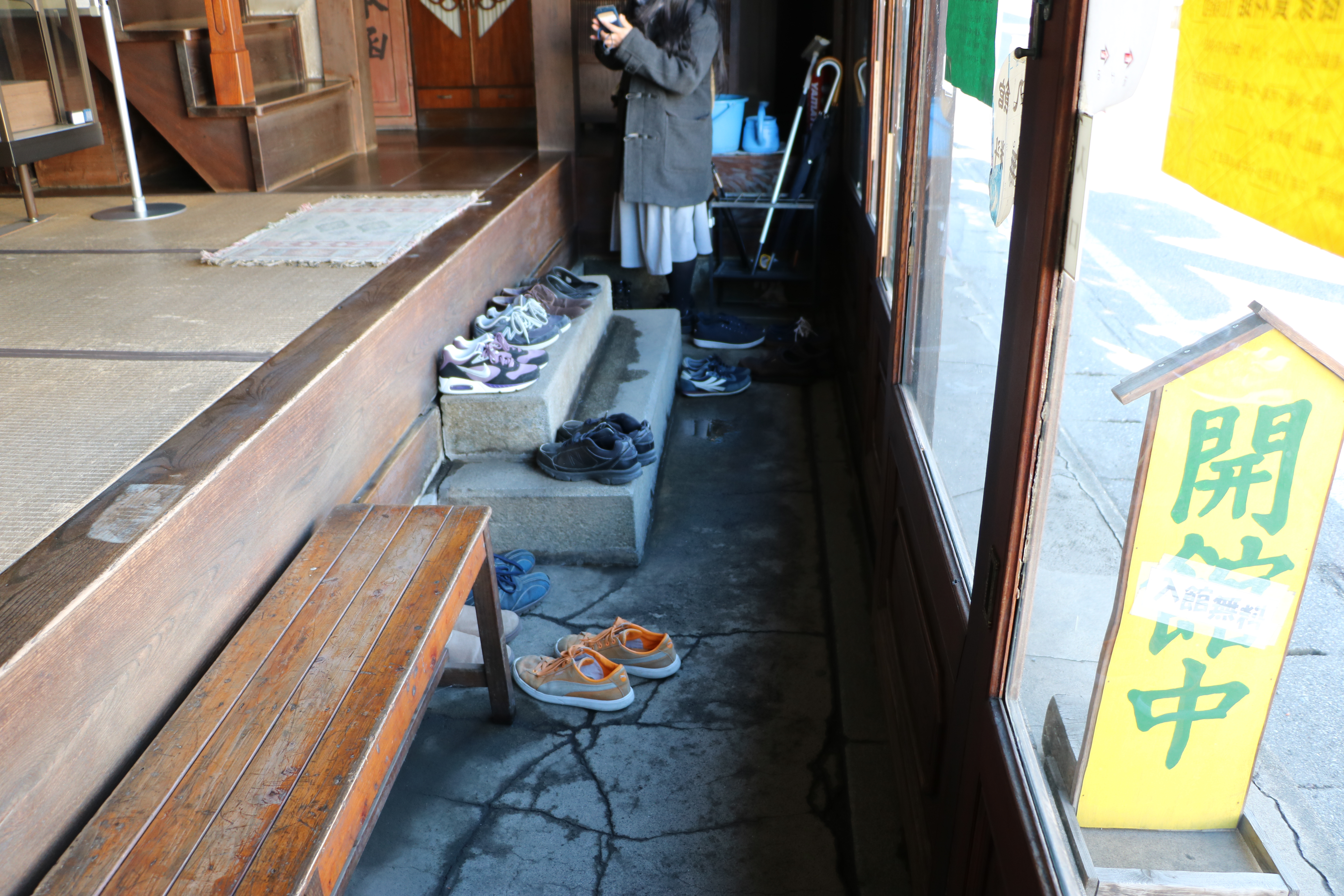 Tsuru City Merchant museum entrance